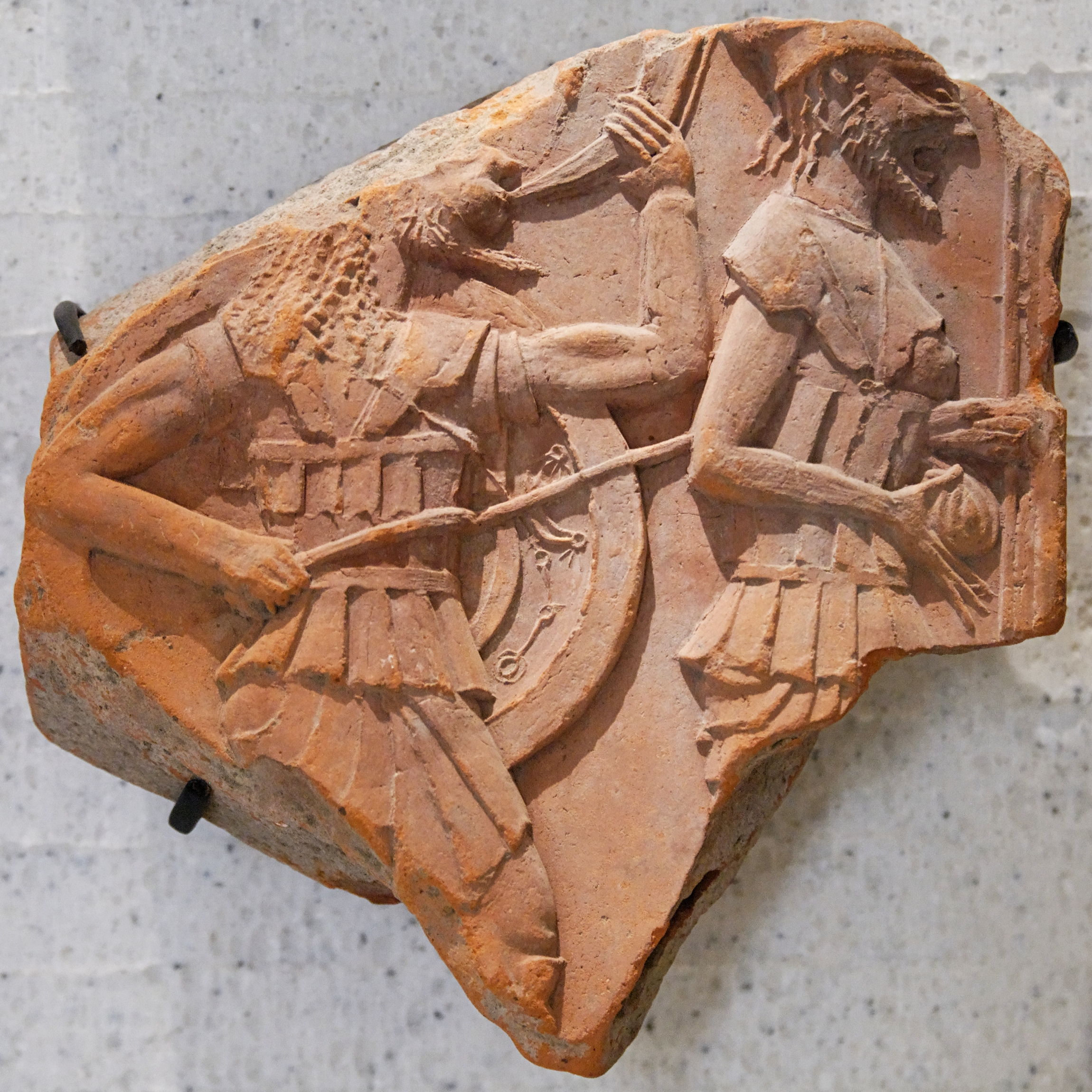 Two hoplites wearing a breastplate with lambrequins over a short chiton; the one on the right wears a helmet and holds a spear and a sling; the one on the left holds a javelin and a shield on his back.